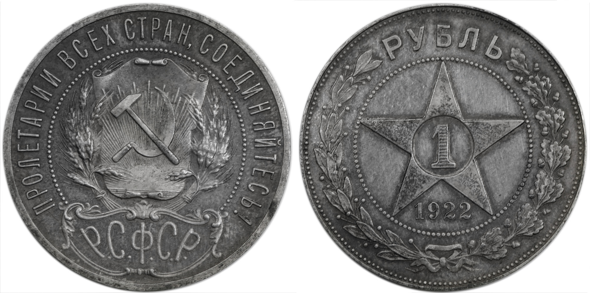 1 рубль 1922 г. (1 rouble of 1922)